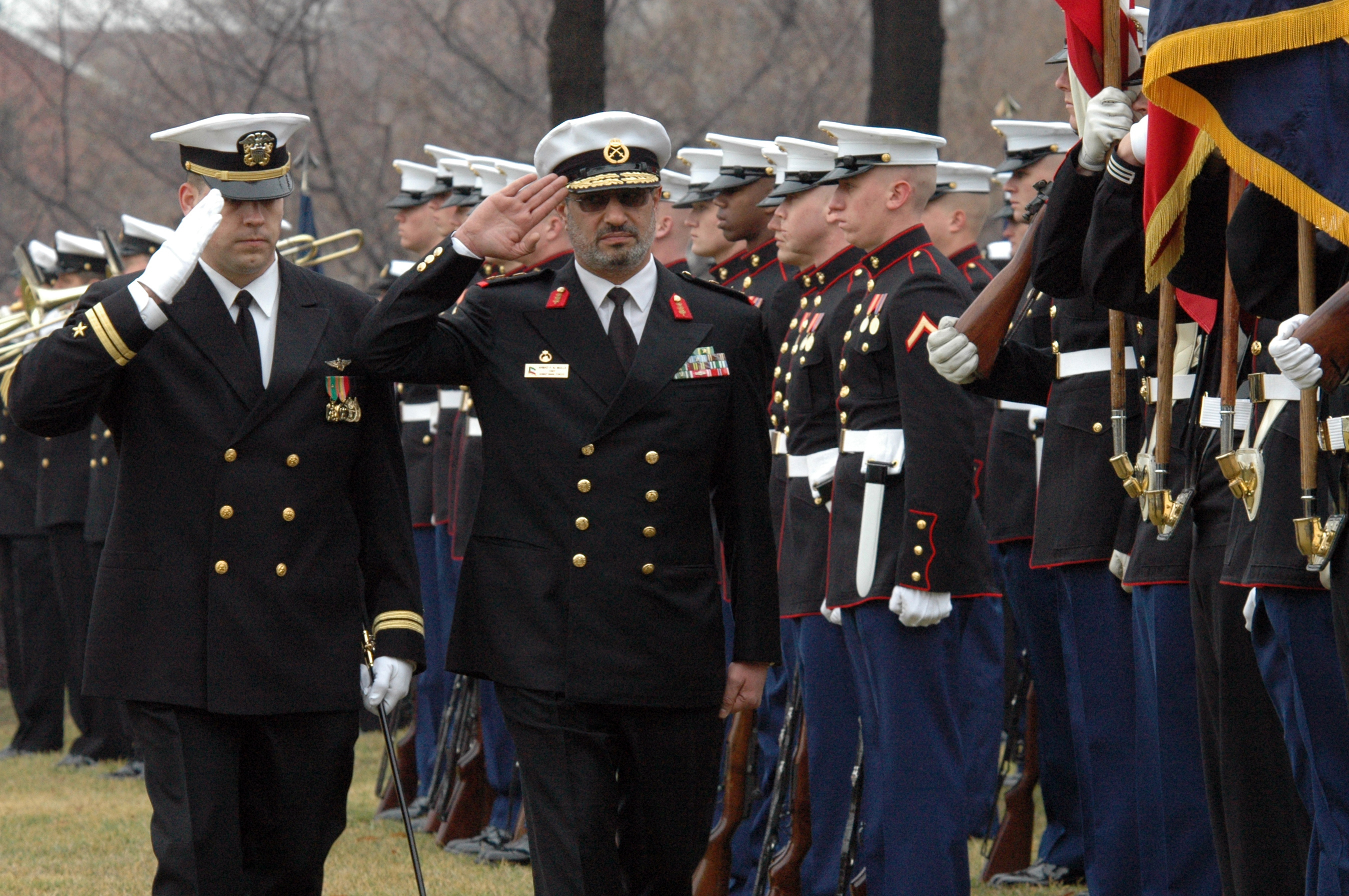 Washington, D.C. (Feb. 15, 2005) – Chief of Kuwait Naval Forces, Maj. Gen. Ahmad Y. Al-Mulla, right, conducts a troop inspection during a full honor welcome ceremony on board the Washington Navy Yard on behalf of his official visit to the United States. U.S. Navy photo by Chief Photographer's Mate Johnny Bivera (RELEASED)